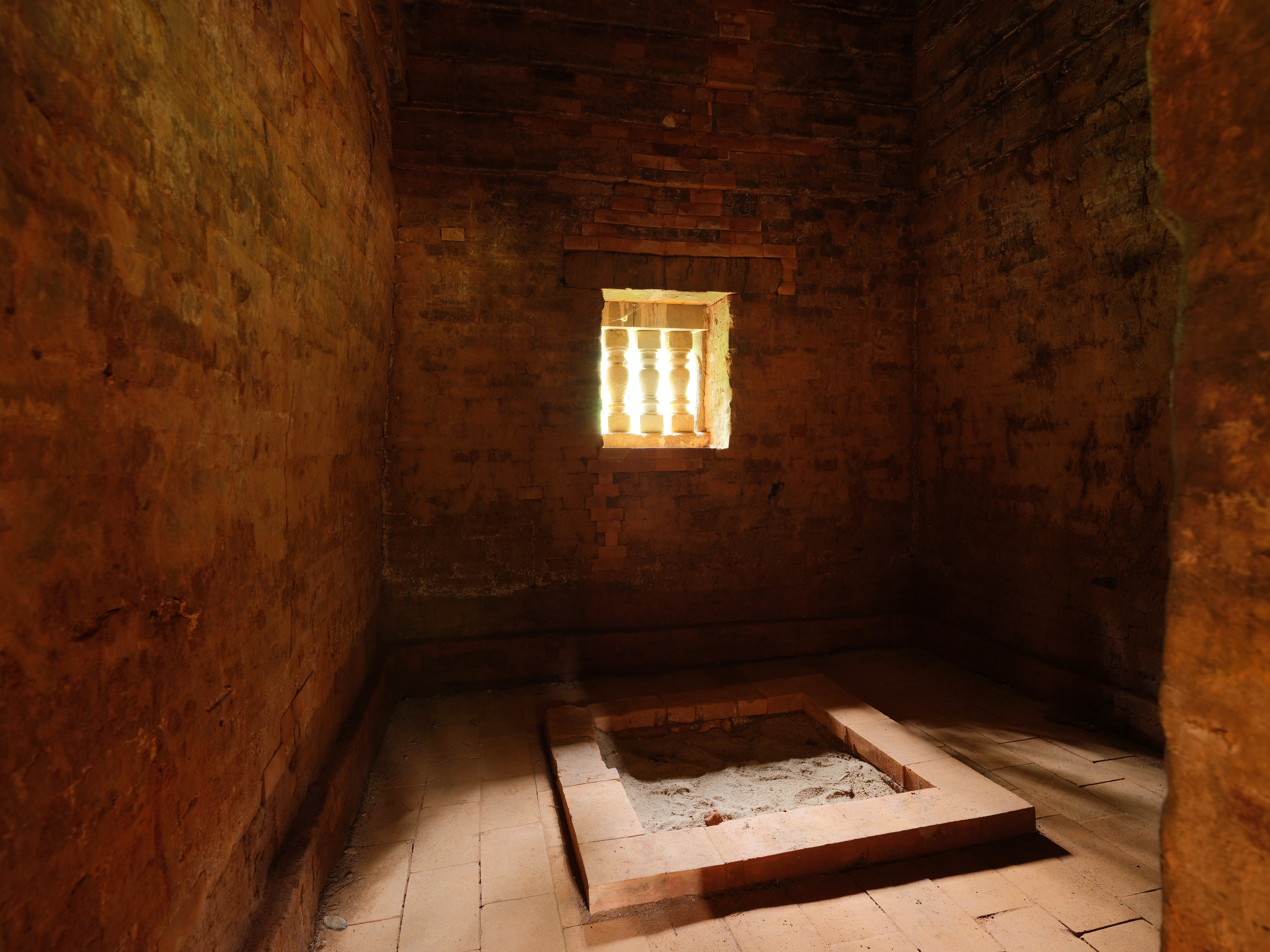 Kośagṛha interior, My Son sanctuary, Vietnam.